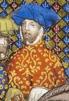 The larger original shows Surrey and his uncle the Duke of Exeter being sent to negotiate with Henry of Lancaster in 1399. (Joseph Strutt, The Regal and Ecclesiastical Antiquities of England, ed. JR Planché, London: Henry G. Bohn, 1842, p. 49)